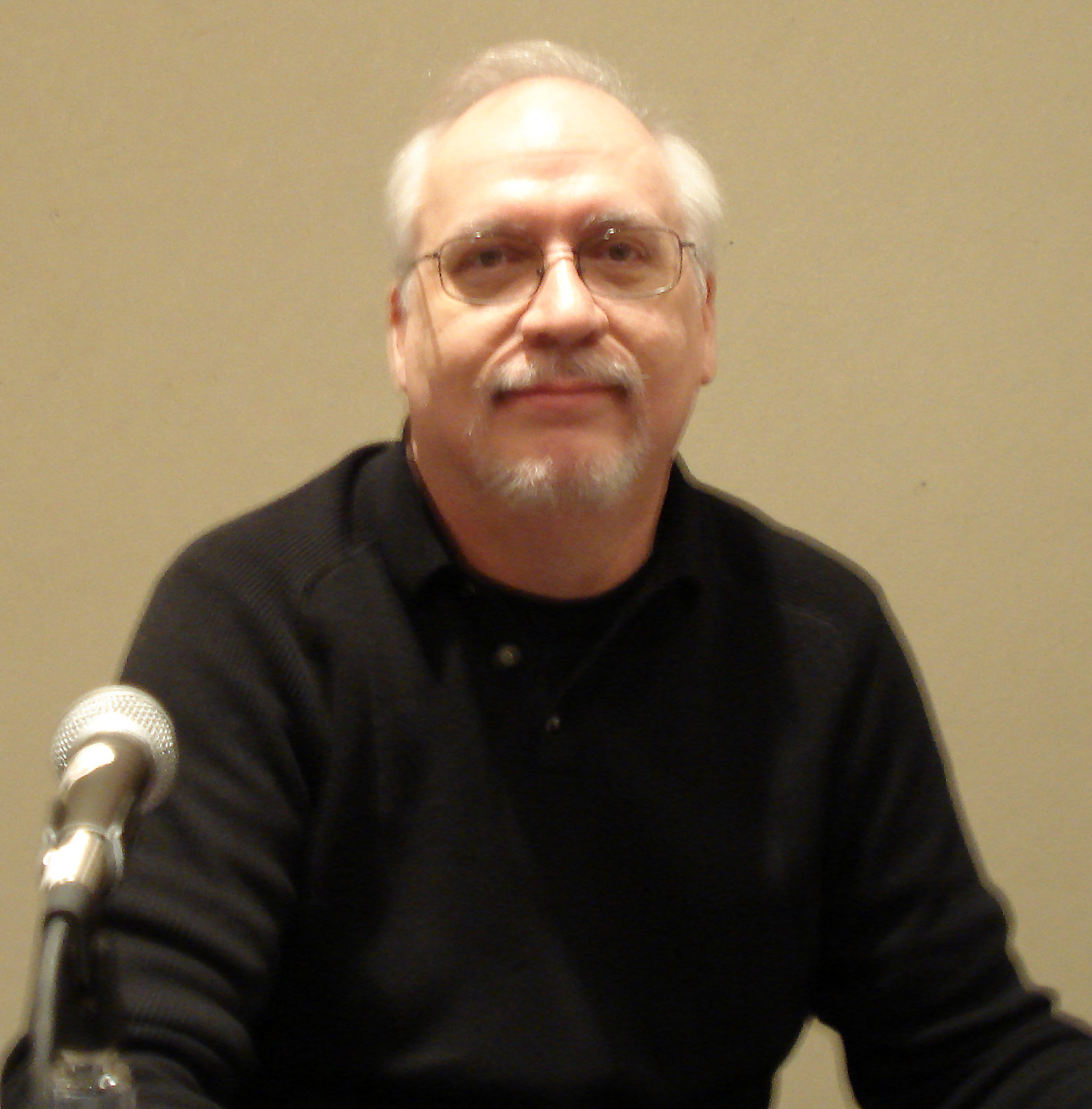 Noted, award-winning writer of television, comics, stage, science fiction, and film, producer, and director J. Michael Straczynski at the 2007 New York Comic-Con. Copyright 2007 Jeffrey O. Gustafson - released under the GFDL and CC-BY-SA-2.0.